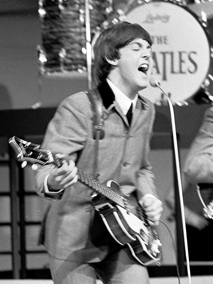 The Beatles, playing for the Dutch broadcast org VARA in 1964